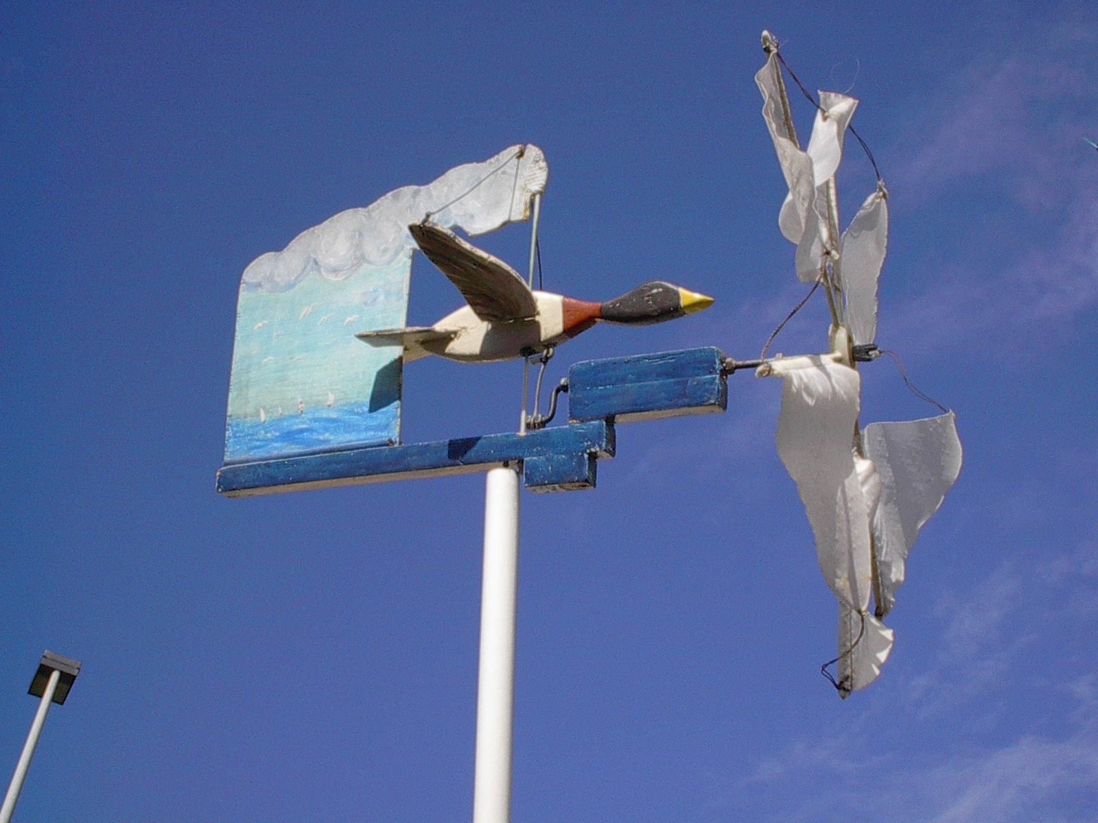 Whirligig